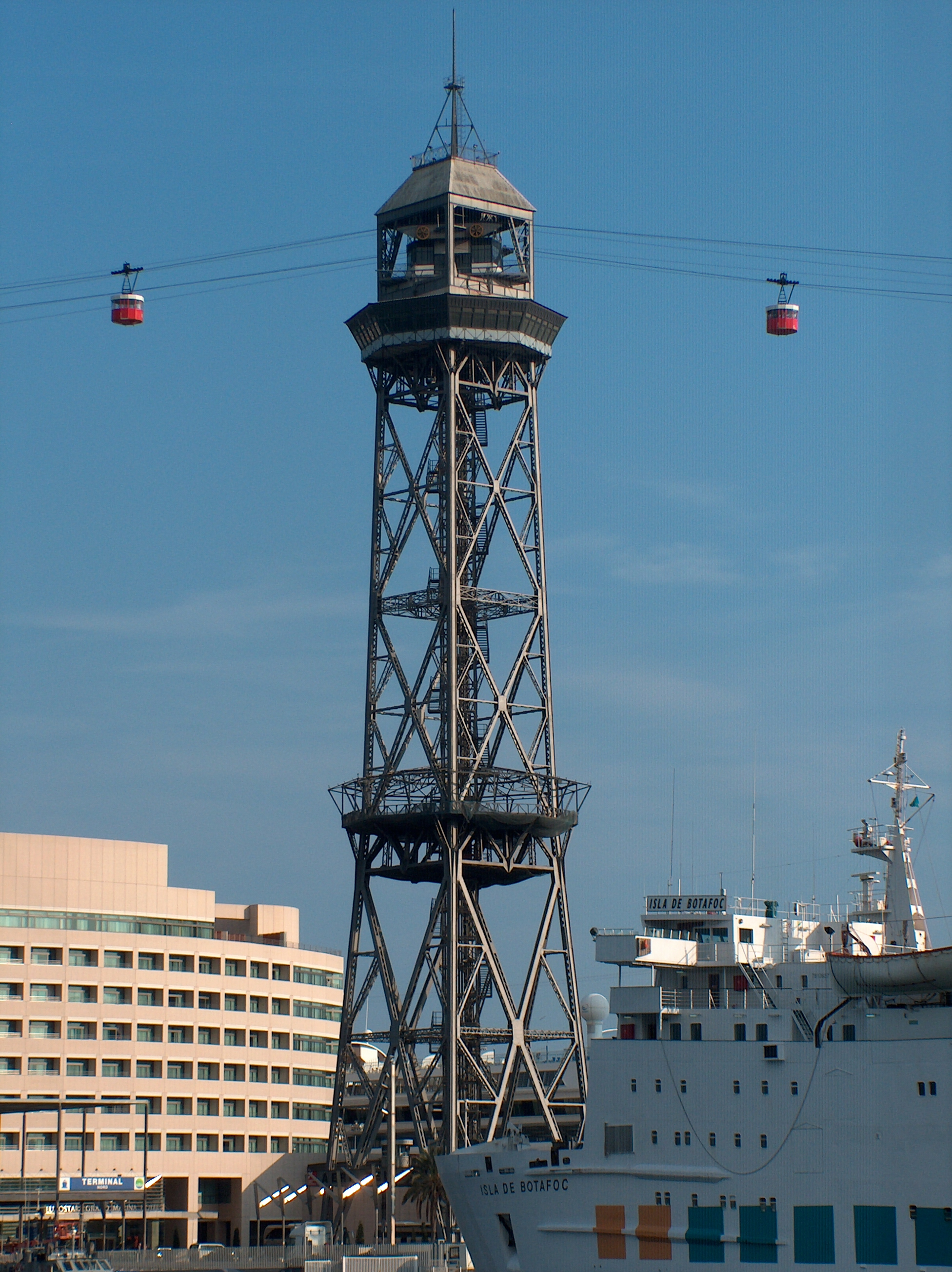 Port of Barcelona: World Trade Center, Torre de Jaume I and Isla de Botafoc (IMO 7813937). Information about Isla de Botafoc may be found at IMO 7813937.A ship can change name and flag state through time, but the IMO number remains the same through the hull's entire lifetime. As a result, it can be useful to identify a ship by using the IMO number.